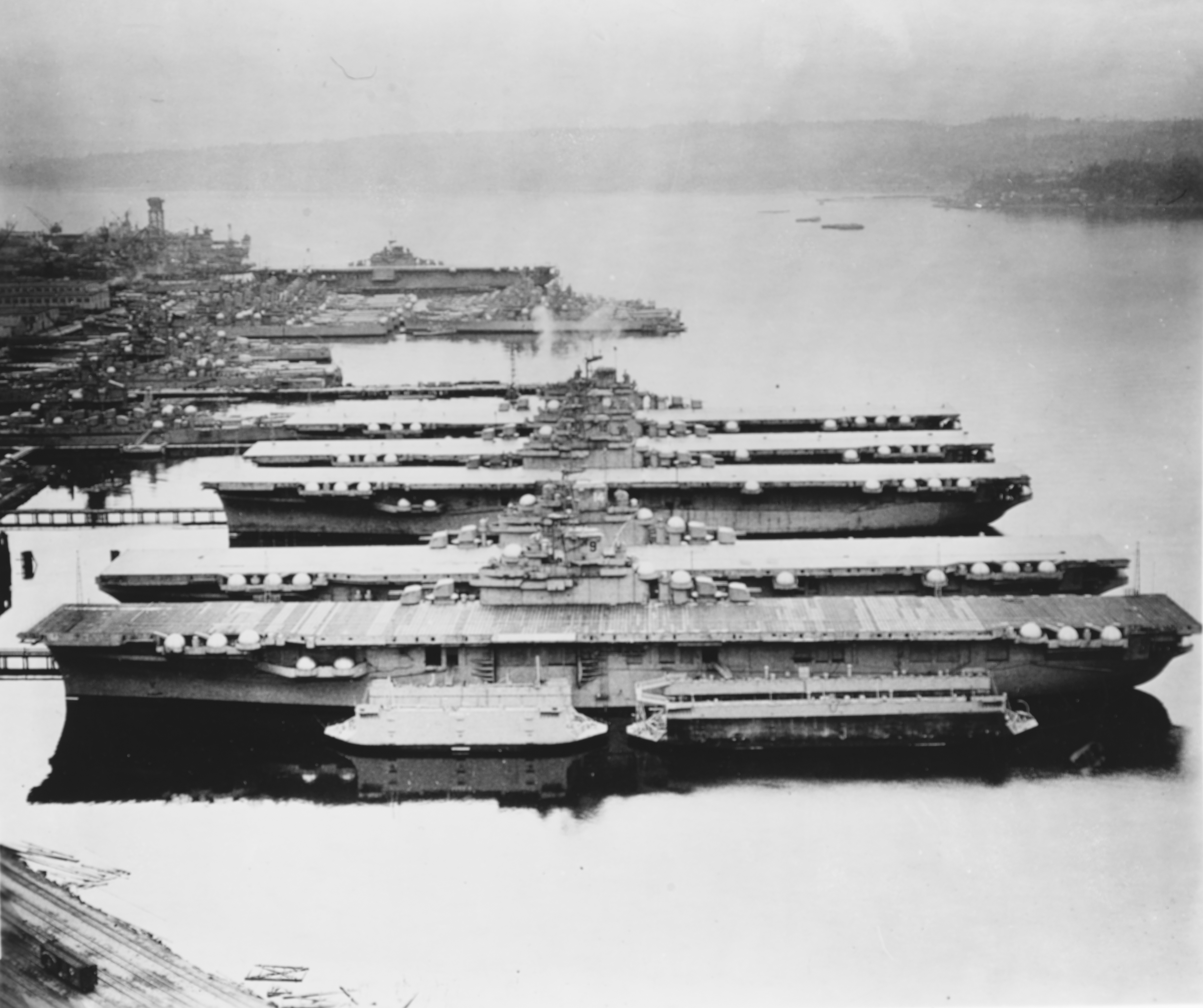 Ships of the Bremerton Group, U.S. Pacific Reserve Fleet, at Puget Sound Naval Shipyard, Washington (USA), circa on 23 April 1948. There are six aircraft carriers visible (front to back): USS Essex (CV-9), USS Ticonderoga (CV-14), USS Yorktown (CV-10), USS Lexington (CV-16), USS Bunker Hill (CV-17), and USS Bon Homme Richard (CV-31) (in the background). Three battleships and various cruisers are also visible.